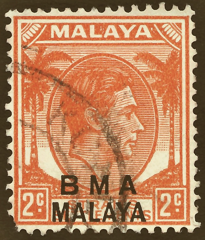 Stamp of the British Military Administration (B.M.A.) in British Malaya; 1945; definitive stamp as overprinted stamp of the issue for the Straits Settlements "George VI of the United Kingdom in oval with palm trees"; stamp printed with plate type II (Main characteristic: The palmtree dosn't hit the oval.); stamp with black, two-lines overprint "B.M.A. / MALAYA"; stamp postmarked; Unfortunately is this stamp damaged. Stamp: Michel: No. 2II (= Straits Settlements No. 214II from 1938 with overprint); Scott: No. 257 Color: orange with black overprint Watermark: Straits Settlements No. 5 (St.Edward's Crown over convoluted characters "CA") Nominal value: 2 C (Cents) Postage validity: from August 1945 until April 1946 Stamp picture size (printed area): 19.0 x 22.5 mm